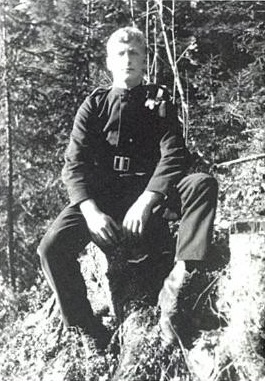 Norwegian Anders Lange in the Royal Guards in late 1924.